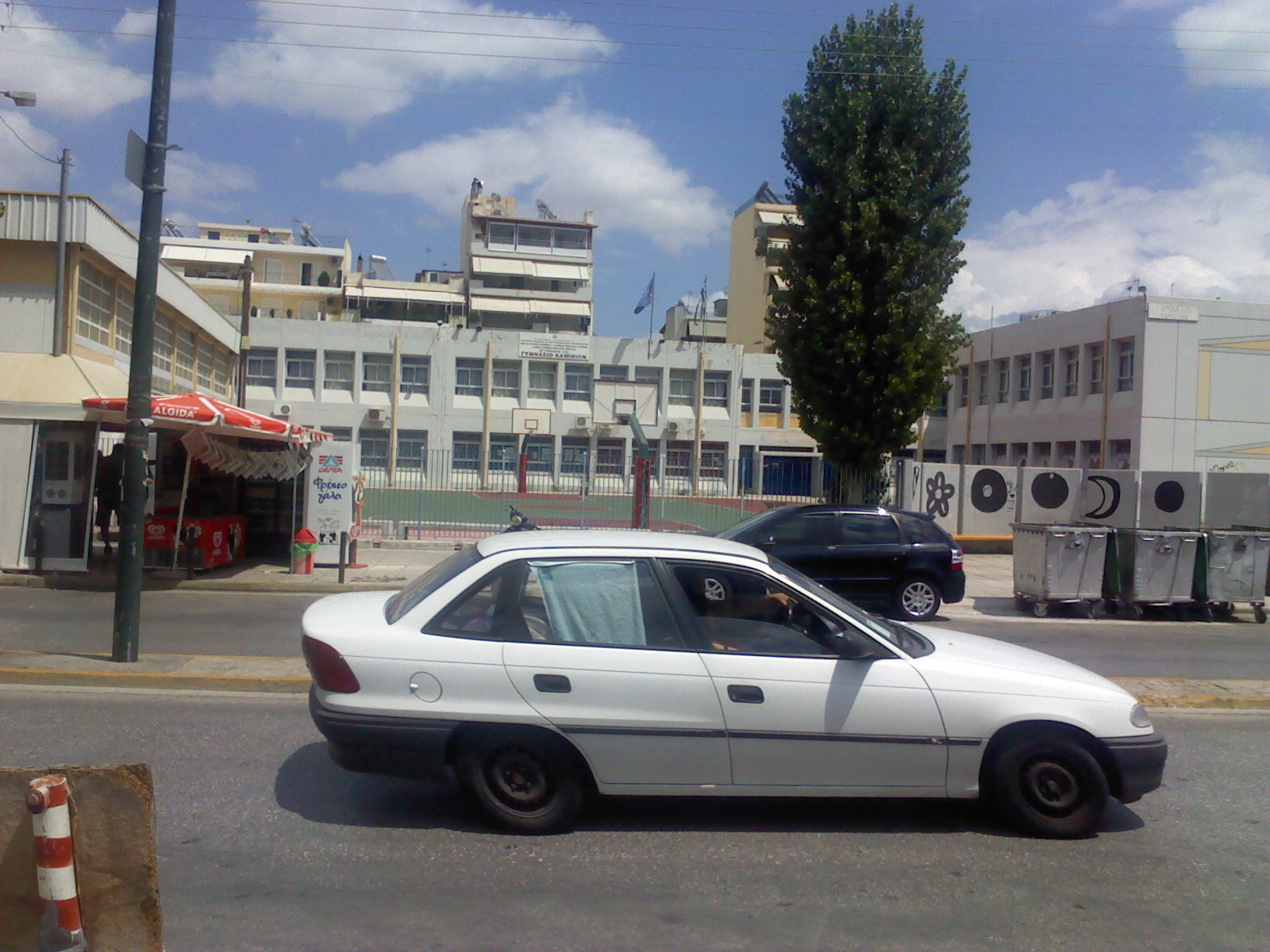 High School Kaminia